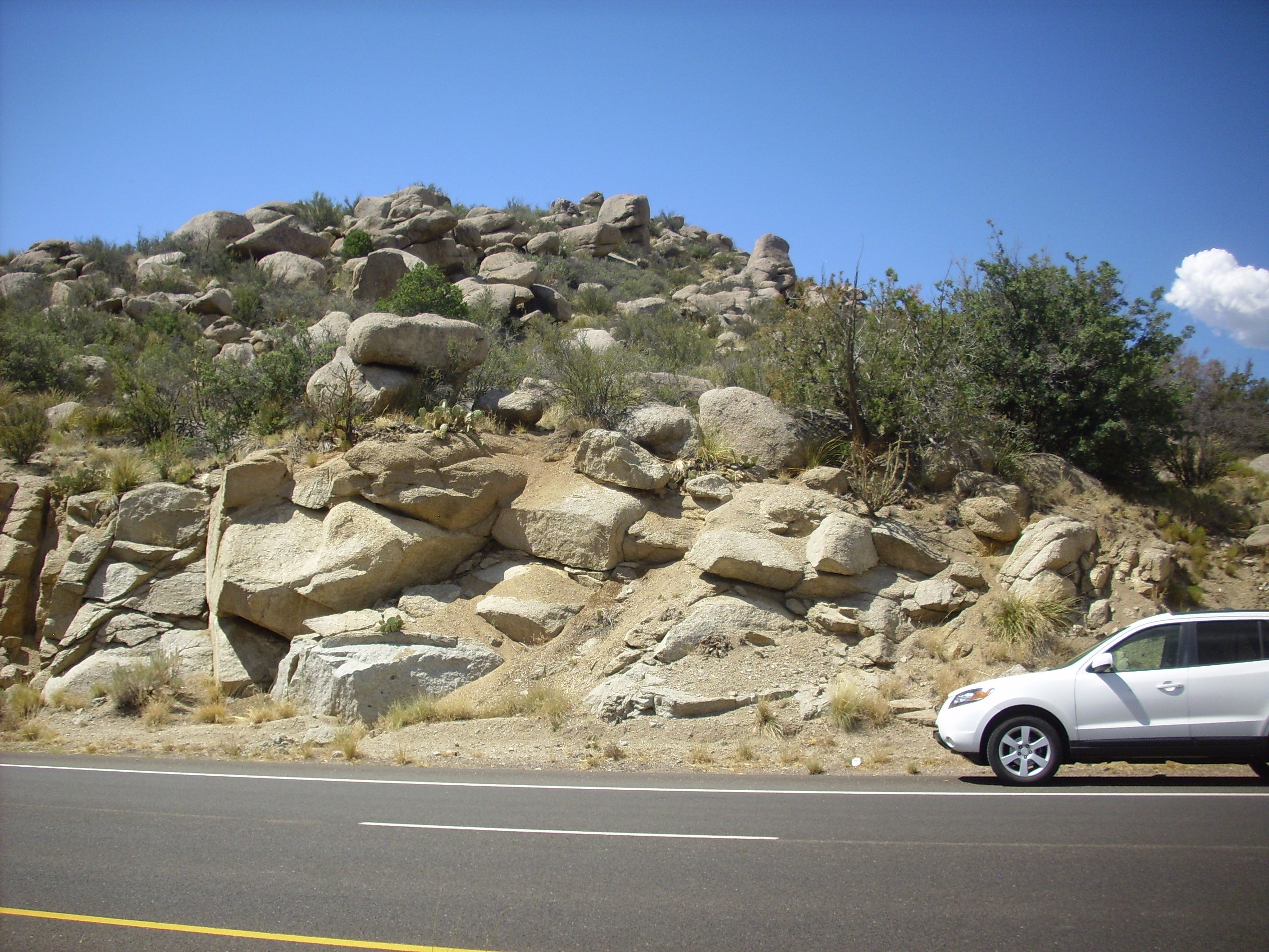 This image shows a roadside outcropping of Sandia granite along the old Route 66 in Tijeras Canyon, east of Albuquerque, New Mexico, USA